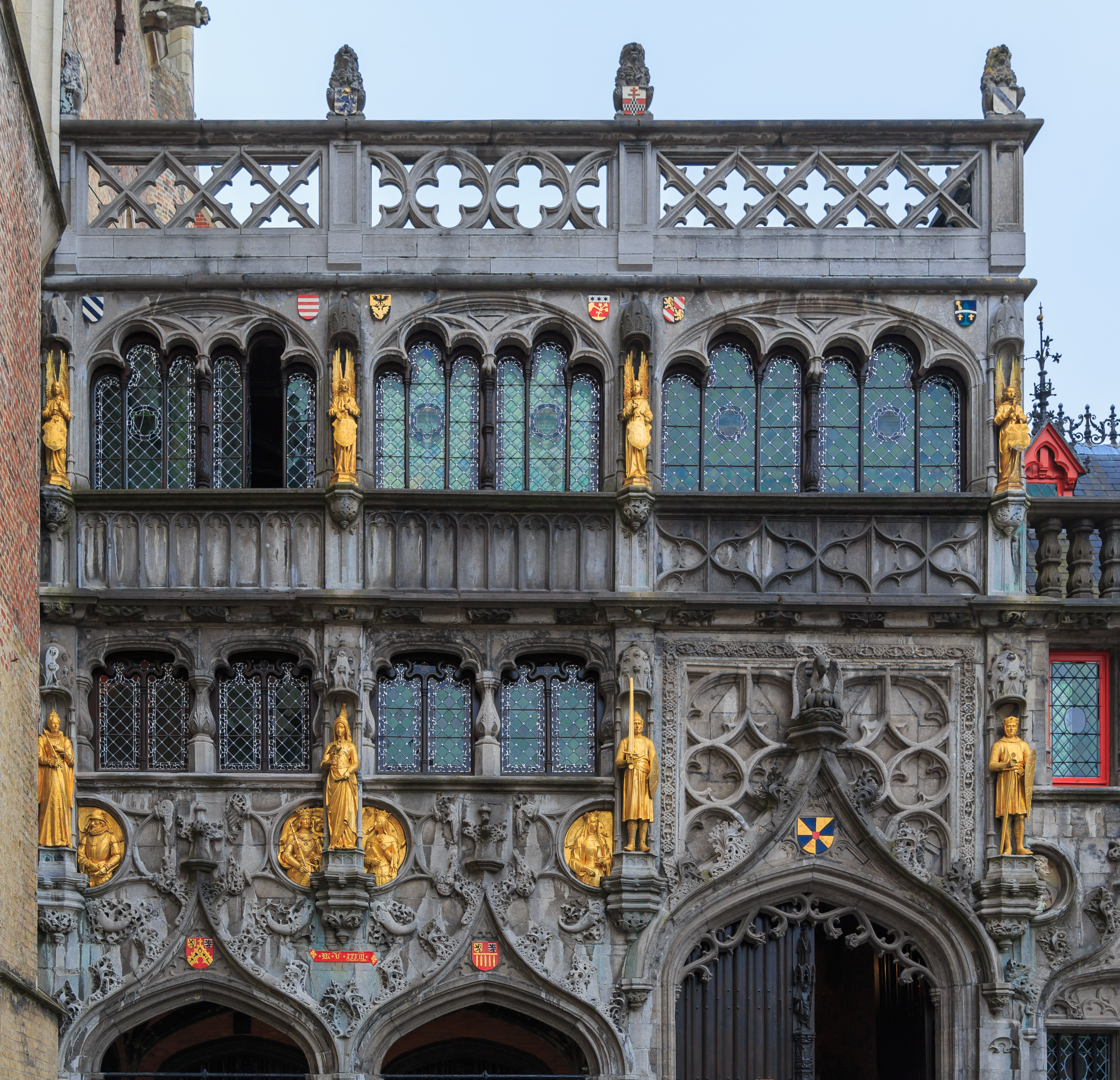 Bruges, Belgium: Facade d detail of the Basilica of The Holy Blood